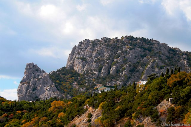 Mount Koshka in Simeiz, Crimea, Ukraine